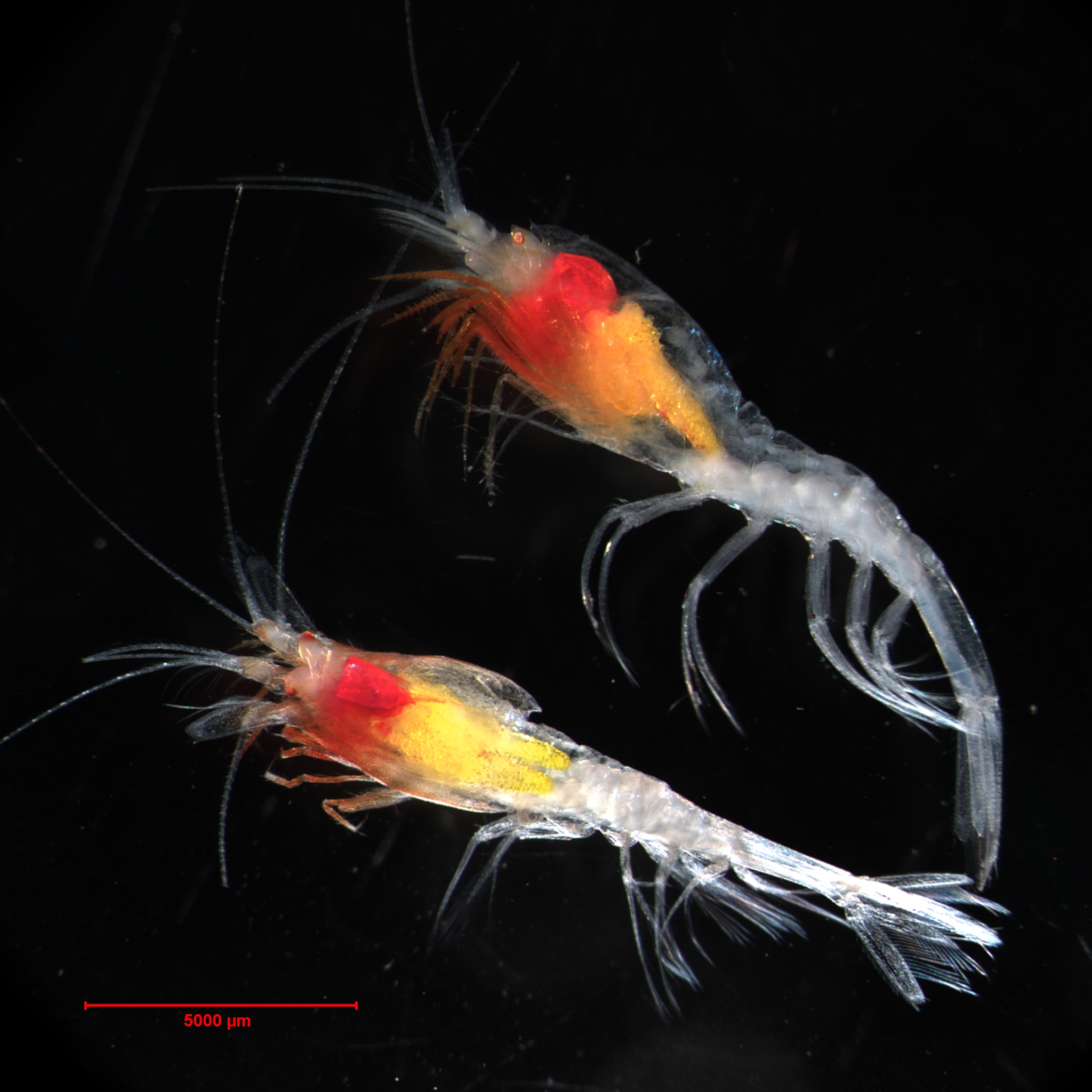 Hymenodora glacialis, the only pelagic shrimp known to inhabit the Canada Basin. Alaska, Beaufort Sea, North of Point Barrow.